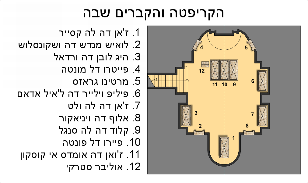 plan of the crypt in St. John's co-cathedral, Valletta